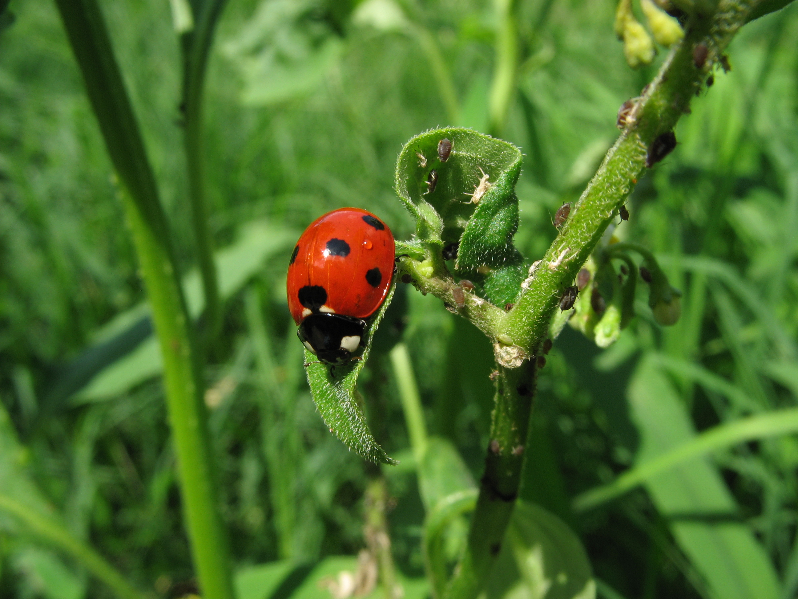 A ladybug, (Coccinella sp., probably C. septempunctata) with aphids on a weed.